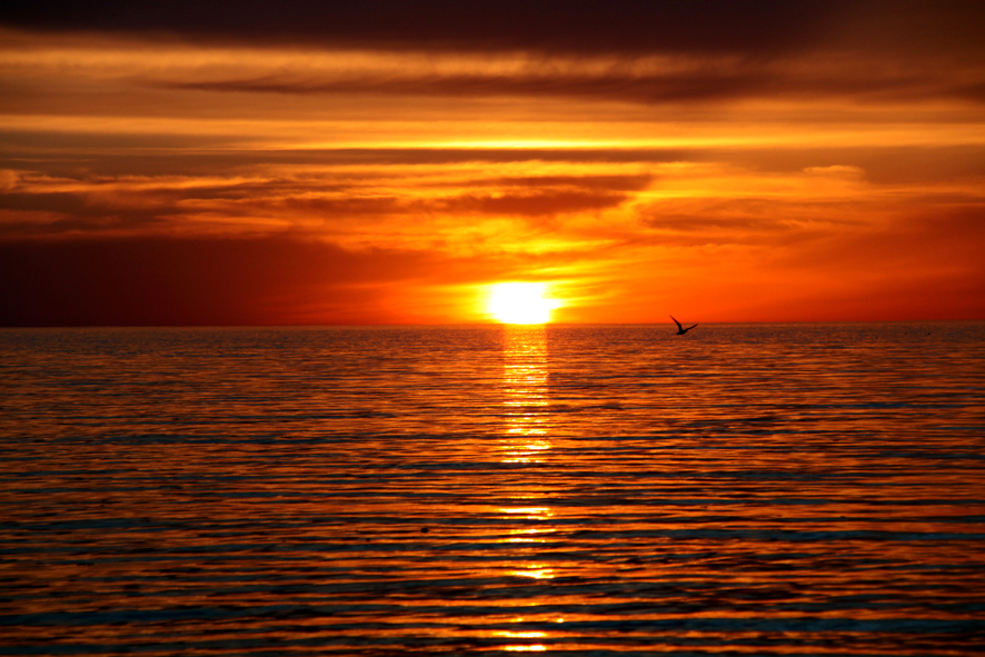 Sunset in Aktau-city.